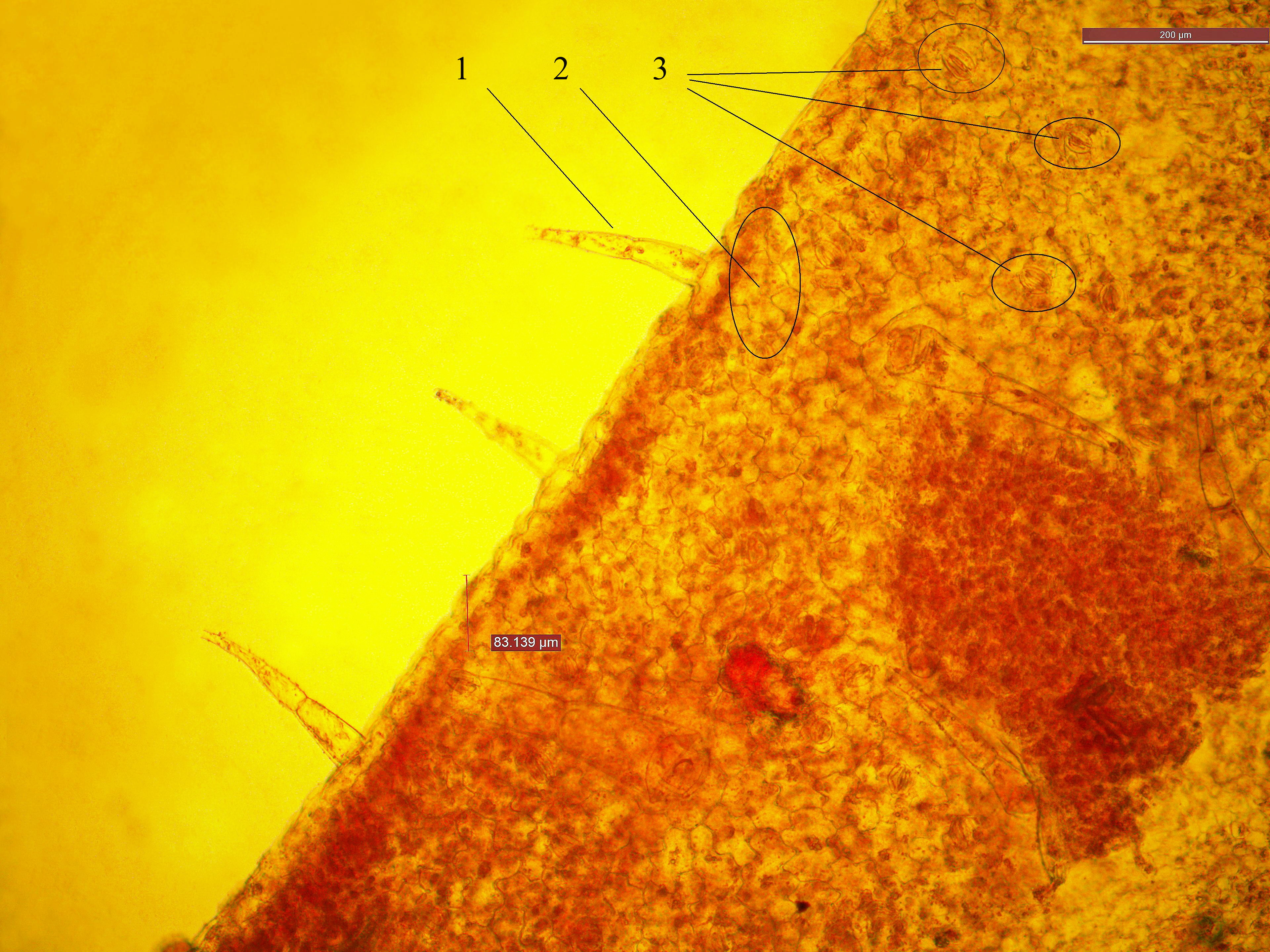 Tobacco leaf under an optical microscope, magnification 100x. Tobacco leaf surface, showing trichomes (1), epidermal cells (2), stomata (3).